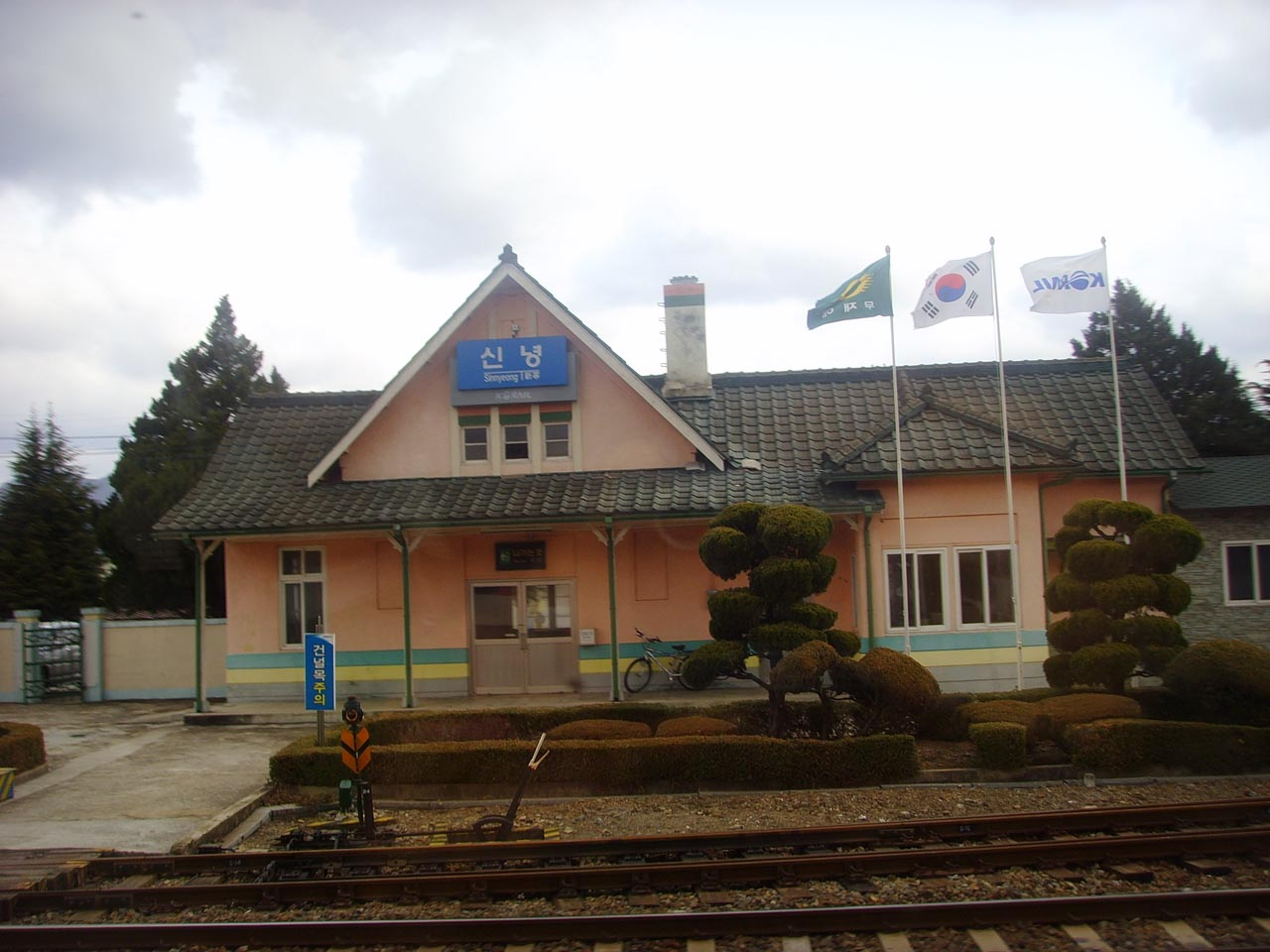 Jungang Line Sinnyeong Station